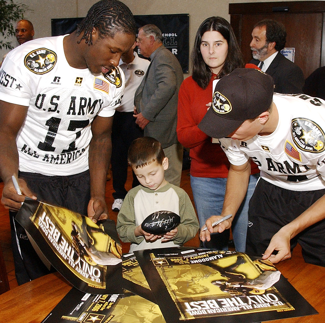 Sergio Kindle (left) a linebacker from Dallas and Chris Caflisch, a wide receiver from San Antonio sign posters and miniature footballs for children from the Warm Springs Rehabilitation Center in San Antonio. Both players will represent the West team Saturday in the Army All-American Bowl.